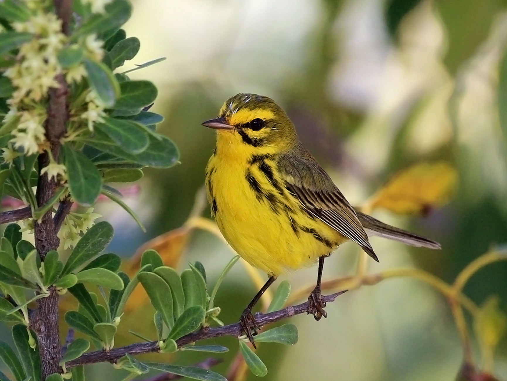 Prairie warbler (Setophaga discolor paludicola) male, Cuba